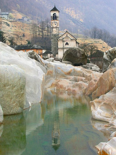 Lavertezzo in Valle Verzasca picture taken by user:Idéfix, march 2005